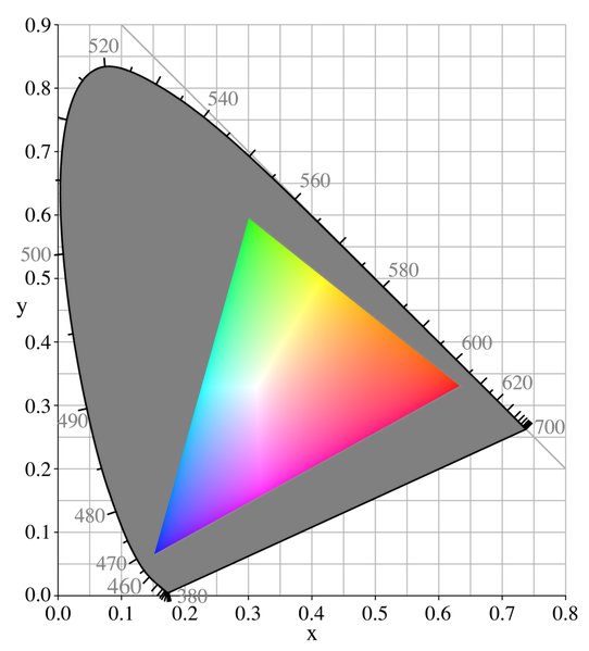 Based on: CIExy1931 As a replacement for an existing image with an unclear copyright status. The image highlights the sRGB gamut. The description of that image follows: The colors for this diagram were generated using the RGB color space in Adobe photoshop. The transformation from xy chromaticity coordinates was done using the sRGB color space specification on the [X,Y,Z]=[x,y,1-x-y] tristimulus values, then multiplying by a constant so that one of the R, G, or B values was maximized. Assuming that one's monitor converts Adobe photoshop RGB according to the sRGB color space (probably a good assumption) then, within the sRGB gamut, the chromaticities are correct, but are incorrect outside the gamut. (See the sRGB article for a description of the sRGB gamut). The process of maximizing the value of R, G, or B results in a distinct 3-pointed star in the diagram, centered at the D65 white point. This is because, although the chromaticities are correct, the luminosities (brightness values) are not equal across the diagram. If the luminosities were all made equal, then the entire diagram would be rather dark, since pure blue has a low luminosity. Any attempt to equalize luminosity to remove the star will reduce the overall luminosity of the diagram, and the star will not completely disappear until the diagram is very dark. Alternatively, we could blur the colors to get rid of the star, which would give incorrect chromaticities. I have opted for correct chromaticities at maximum brightness, thus the presence of the star.